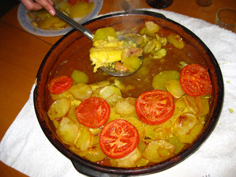 Cruet de peix o suquet de peix, a la Marina Alta, País Valencià. Suquet de peix, a typical Mediterranean dish available in the South of France and the East of Spain, and associated with Catalan cuisine.